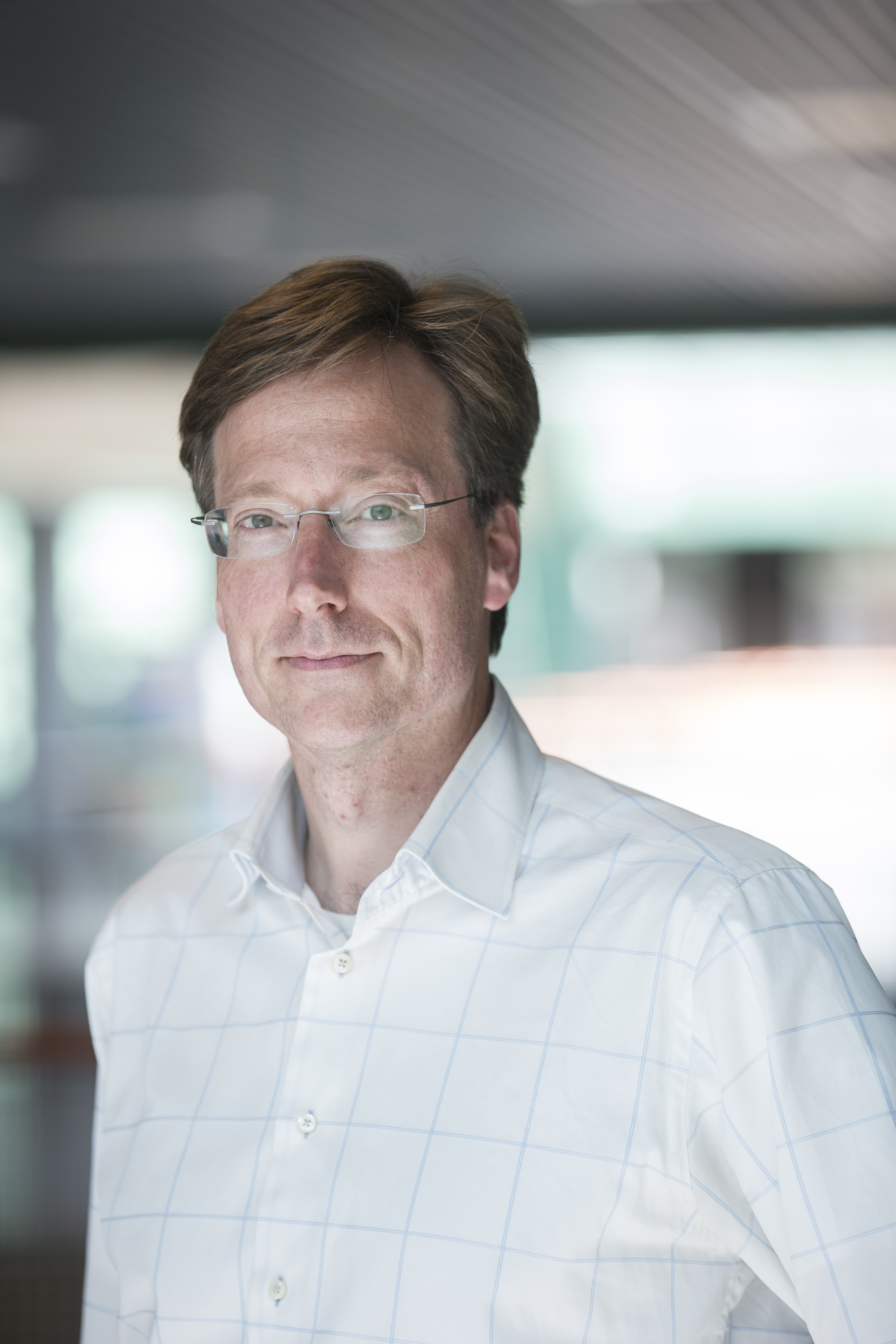 Dutch chemist Wilhelm Huck. Photograph by Ivar Pel